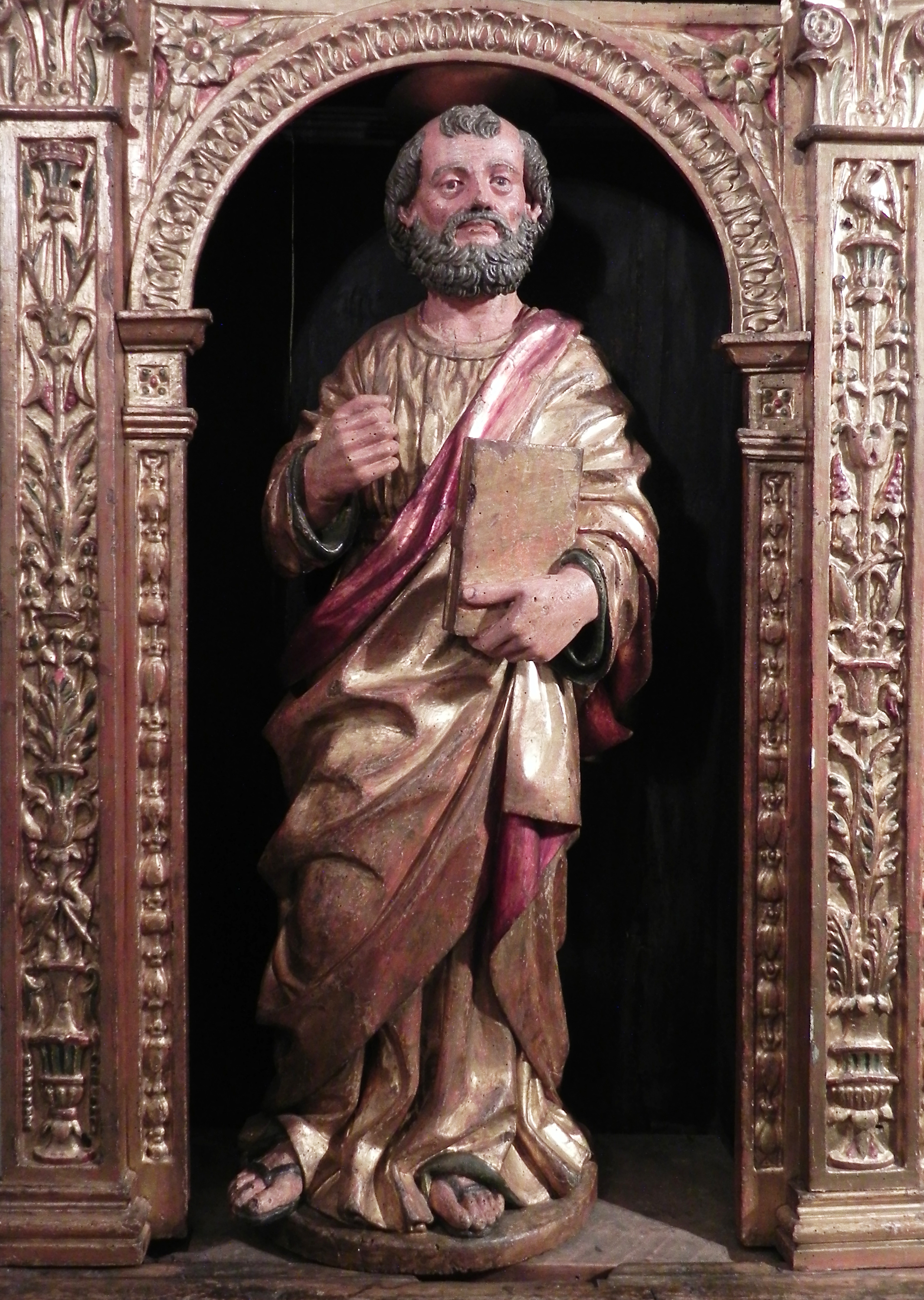 Museo Adriano Bernareggi